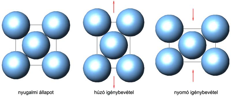 Elastic deformation of metal cristal